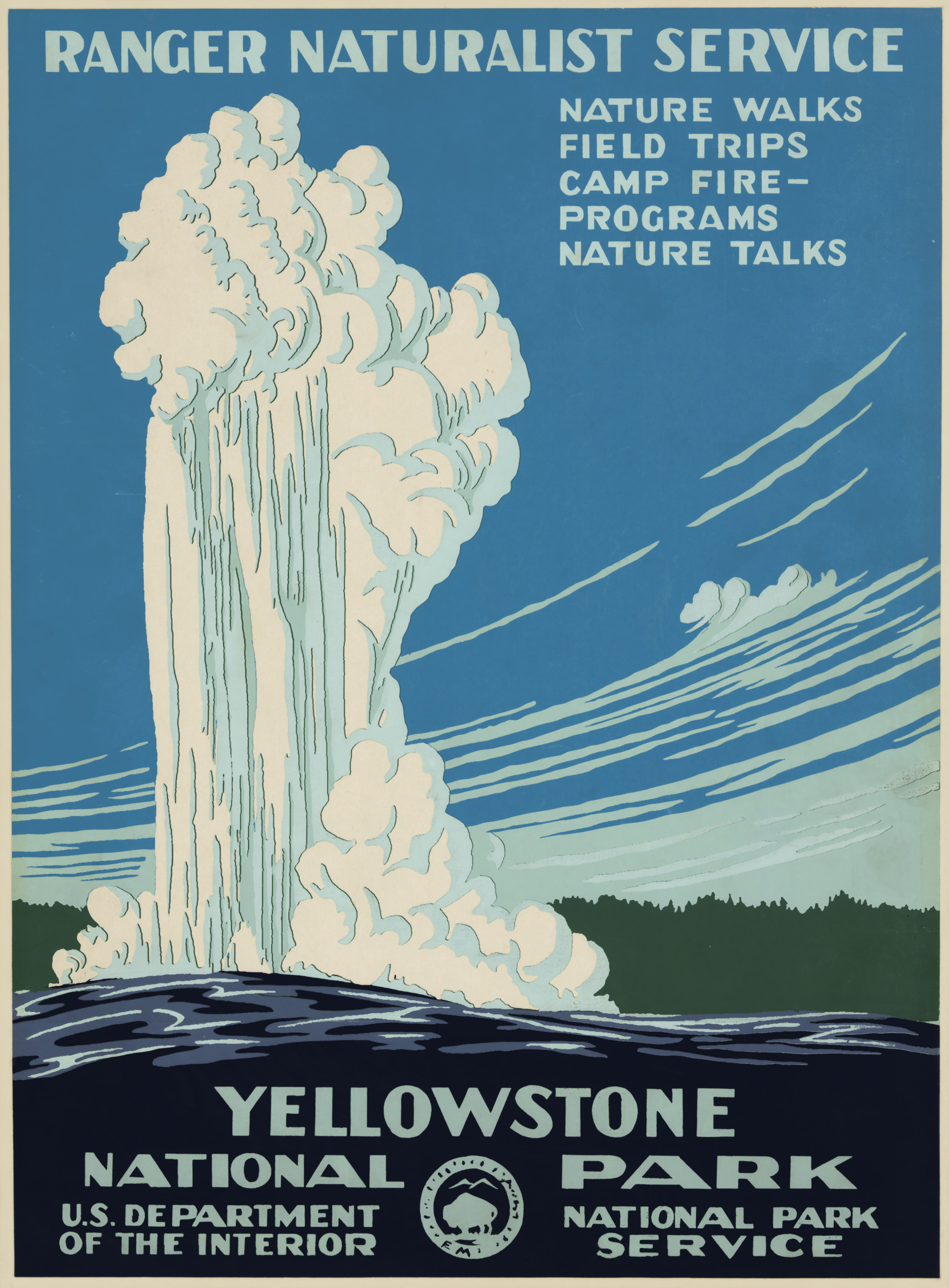 Poster for Yellowstone National Park, Wyoming/Montana, USA